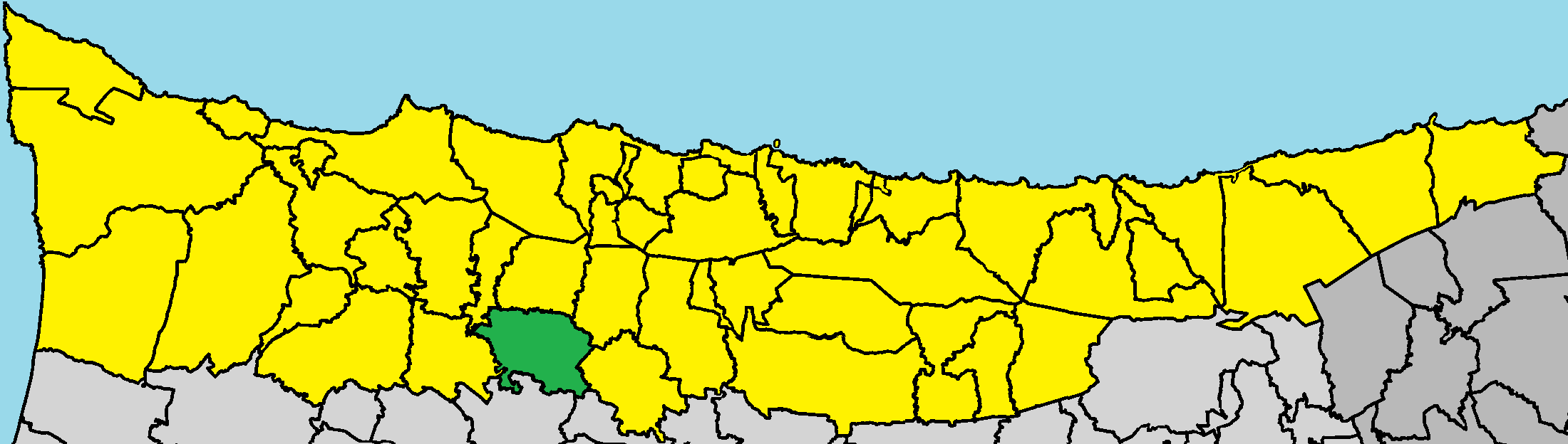 Agios Ermolaos Keryneias in Kyrenia District (de jure).